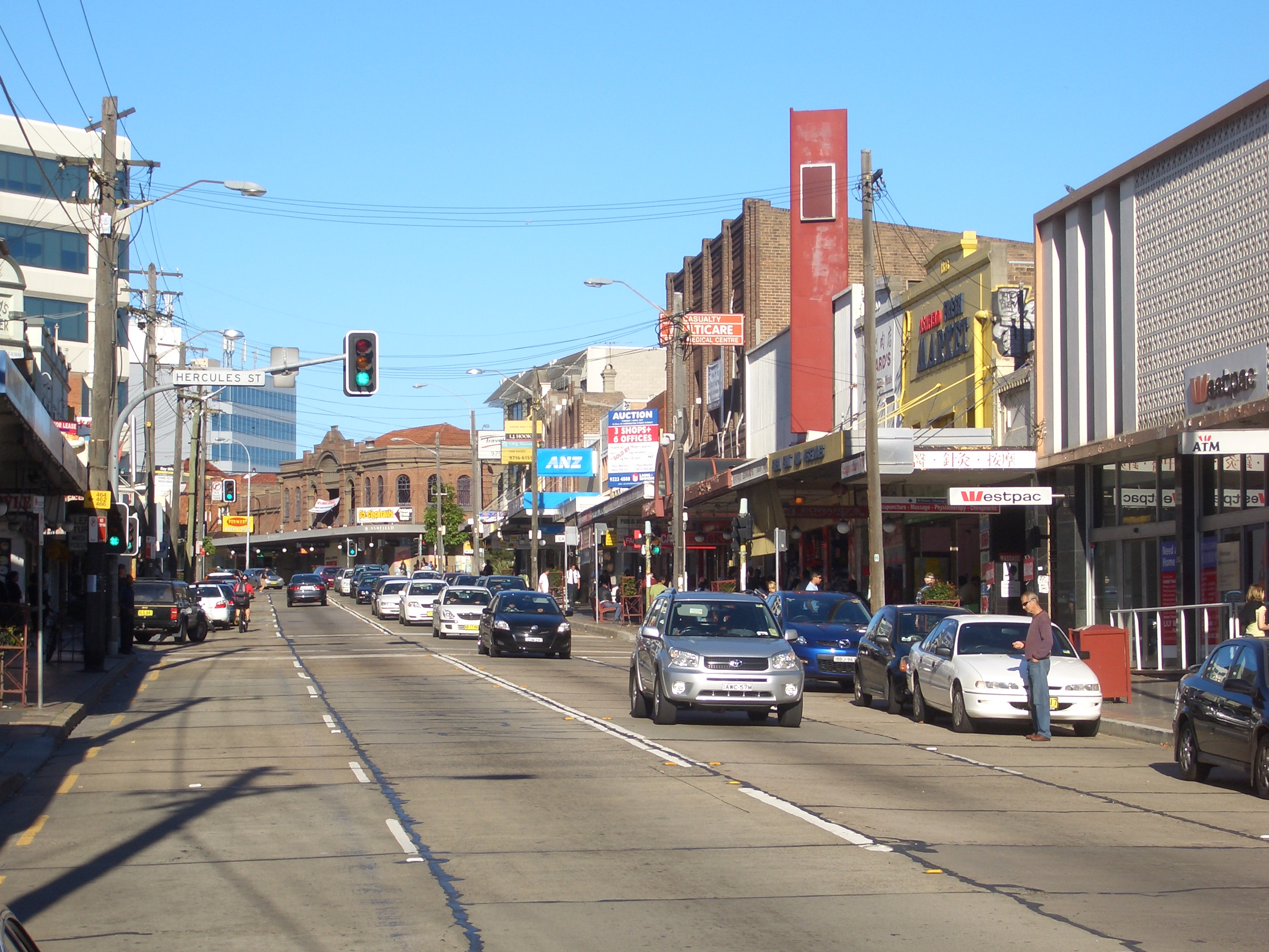 Liverpool Road, Ashfield, Sydney